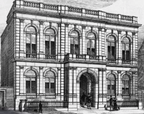 A nineteenth century building with a fontdoor portico